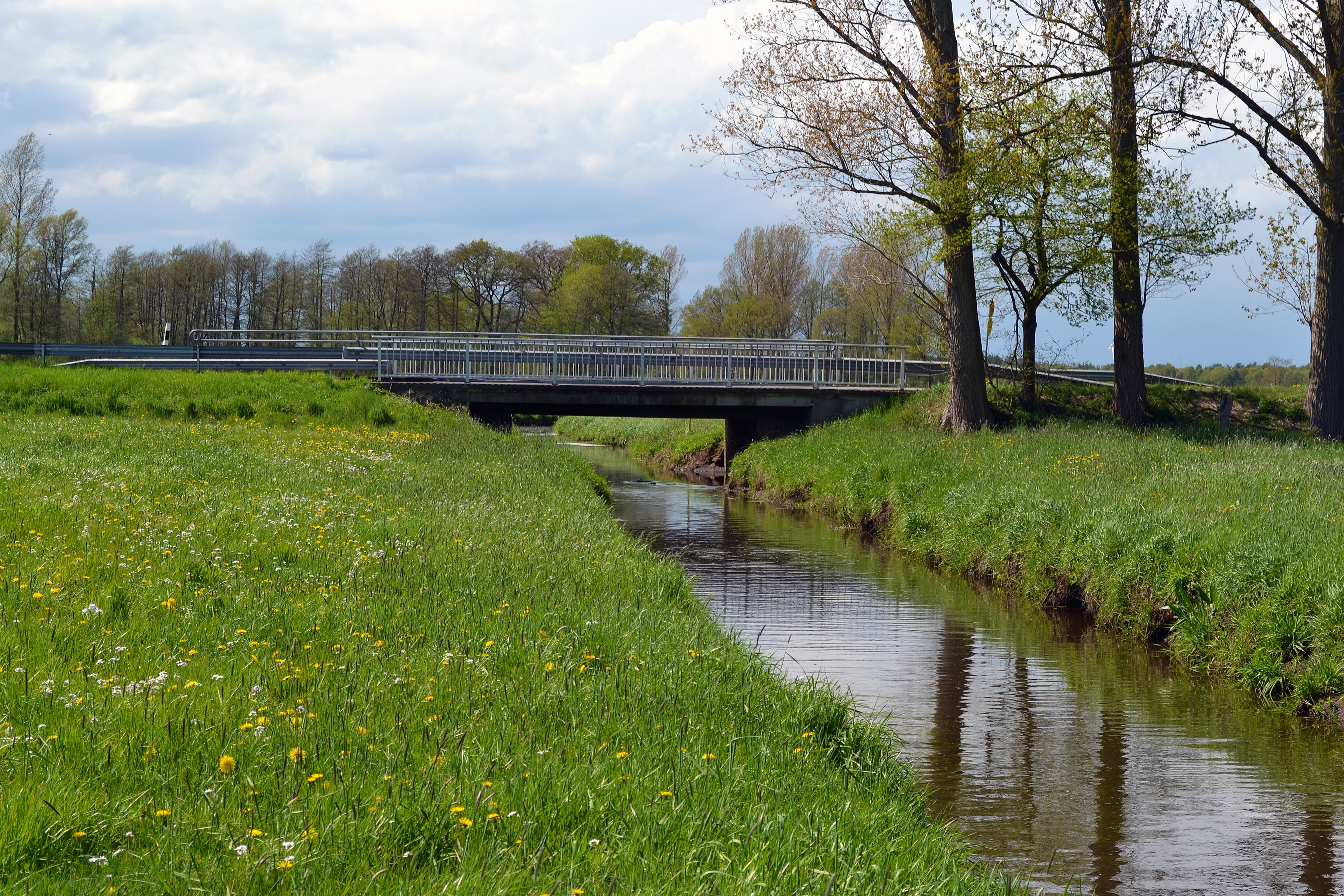 Fahrdahl-Fahrendorfer Canal in area of the town part Spreckens of the town Bremervörde. In the background is the K102.